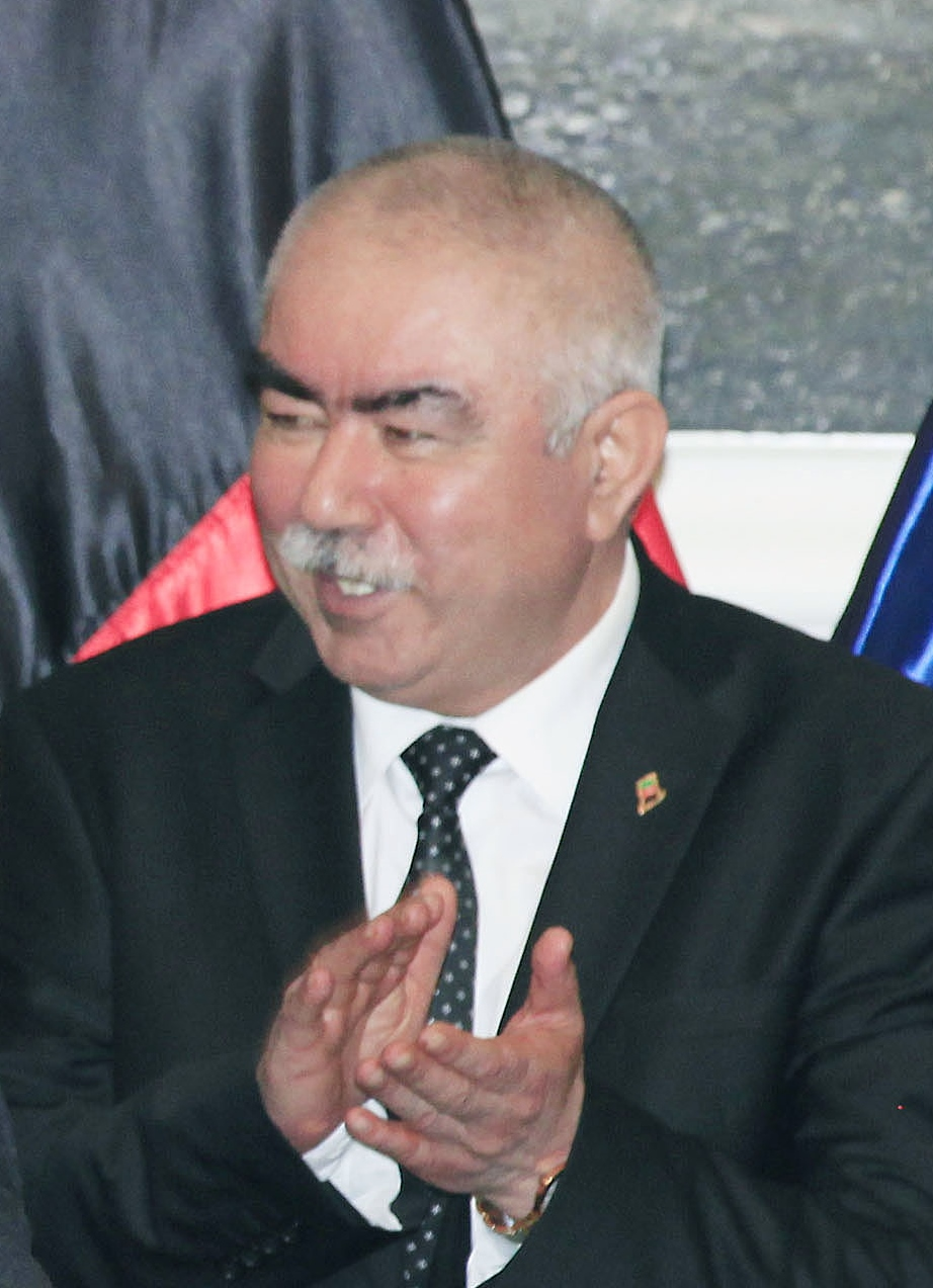 Abdul Rashid Dostum during the signing of the Bilateral Security Agreement (BSA) in Kabul, Afghanistan. (Photo by/U.S. State Department)